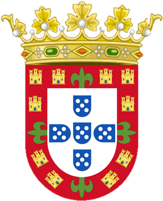 Coat of Arms of the Royal House of Aviz